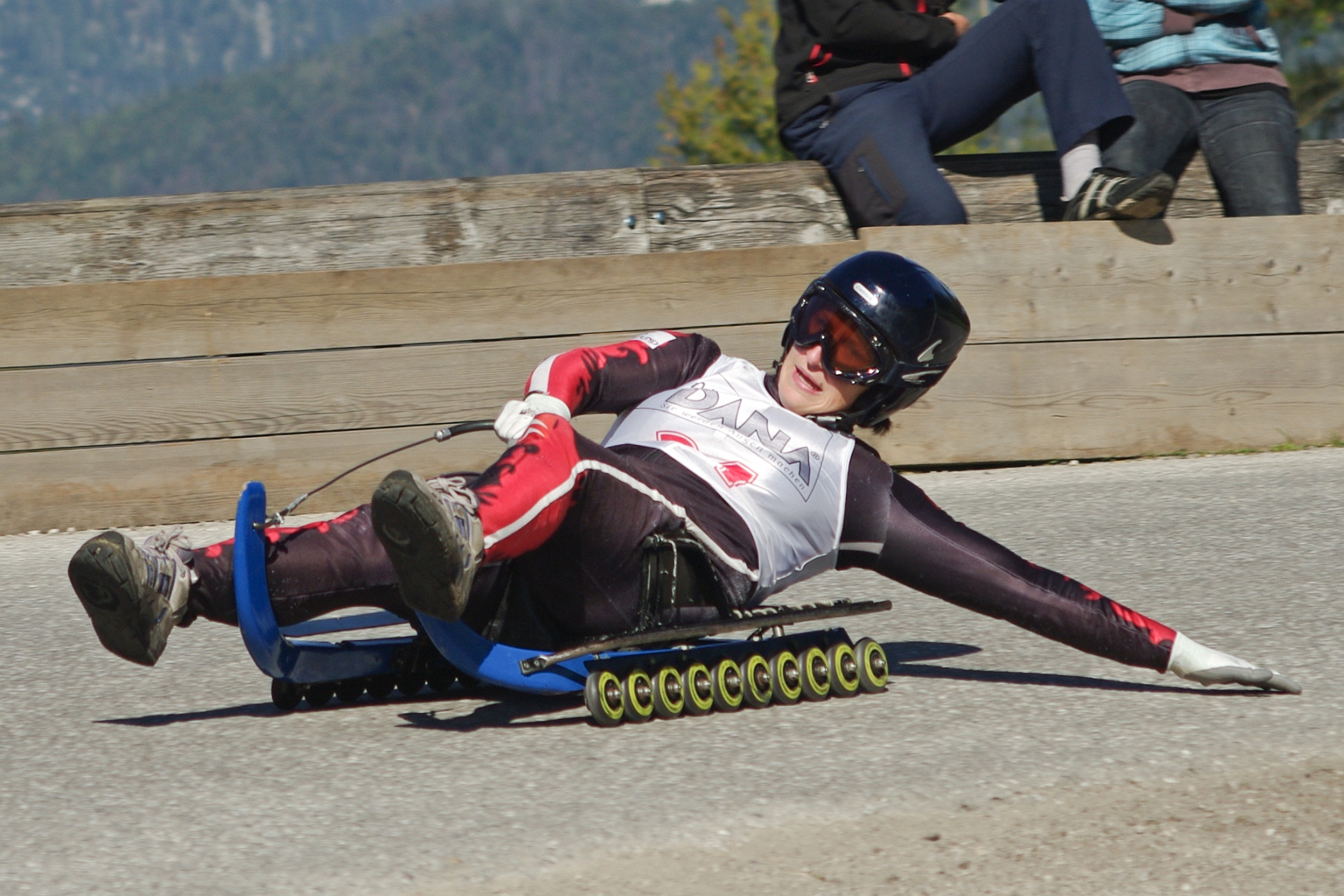 Austrian natural track luger Anna Braun in the last race of the Rollenrodelcup 2011 in Rosenau/Edlbach.